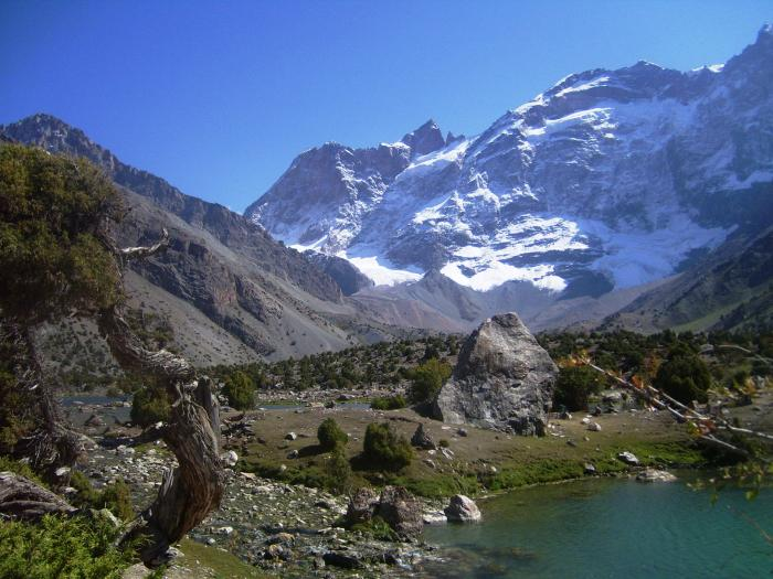 Lake Kulikalon and Fan Mountains, Tajikistan.